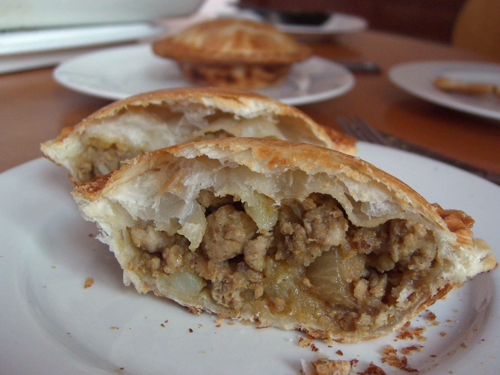 Homemade curry chicken pot pies.